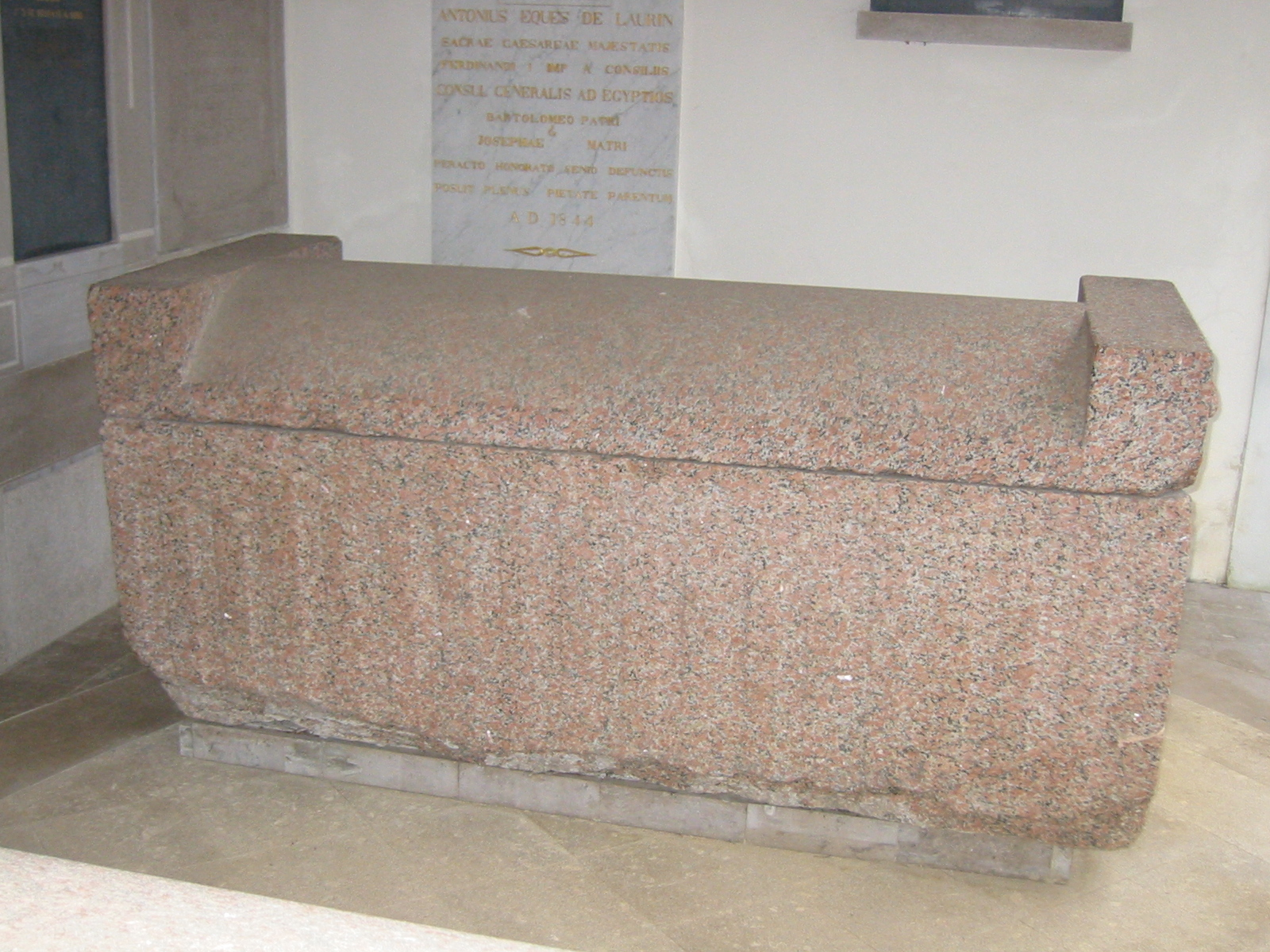 Egiptian sarcophagus in Vipava, Slovenia